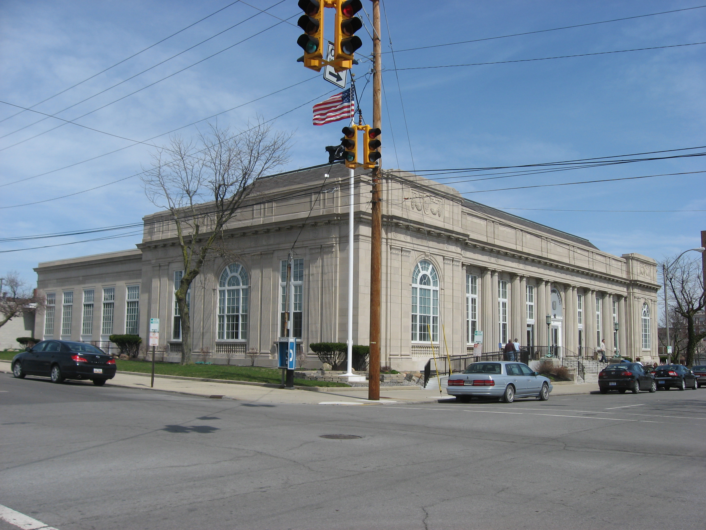 Front and western side of the U.S. Post Office, located at 326 W. High Street in Lima, Ohio, United States. Built in 1930, it is listed on the National Register of Historic Places.